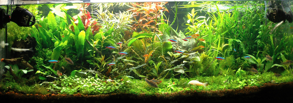 [WATER PLANTS] - Pogostemom Stellata - Nesaea Pedicellata - Staurogyne repens - Echinodorus Radicans - Cryptocoryne Undalatus Kasselman - Nomaphila Stricta Thay - Anubias Barteri var. Petitte - Anubias Minima - Bolbitis Heudelotii - Crinum Calamistratum - Cryptocoryne Beckettii 'petchii' - Cryptocoryne Wendtii 'Tropica' - Alternanthera Reineckii 'Purple' (lilacina) - Echinodorus 'Ozelot' - Hemianthus Micranthemoides - Proserpinaca Paulustris 'Cuba' - Hemianthus Callitrichoides 'Cuba' - Cyperus Helferi - Vesicularia Dubyana - Hydrocotyle Sibthorpioides (maritima) - Hygrophila Pinnatifida - Microsorum Pteropus 'Narrow' - Microsorum Pteropus 'Petit' - Microsorum Pteropus - Microsorum Pteropus 'Windelov' [FISH] - Otocinclus Affinis - Crossocheilus Siamensis - Paracheirodon Axelrodi - Hyphessobrycon Amandae - Corydoras Aeneus (Albino) - Corydoras Aeneus (Red Fin) [SUBSTRATE] Dupla Substrate [FILTER] Eheim Classic 2260 [LIGHT] Arcadia OT2 Freshwater 1000mm 4x39w T5 [CO2] Dupla Armatur PRO, Dupla Magnetventil and GLA Atomic diffuser [COMMENTS] The tank was setup in a way that would bring back memories of my summer holidays in Portugal, Lisbon. There is a strong light from the left side that will enhance the reds of the Cryptocorynes, Proserpinaca and Alternanthera right underneath it. The layout and color gives the illusion that the sun is rising from between the plants, with the red hues being the sun itself.